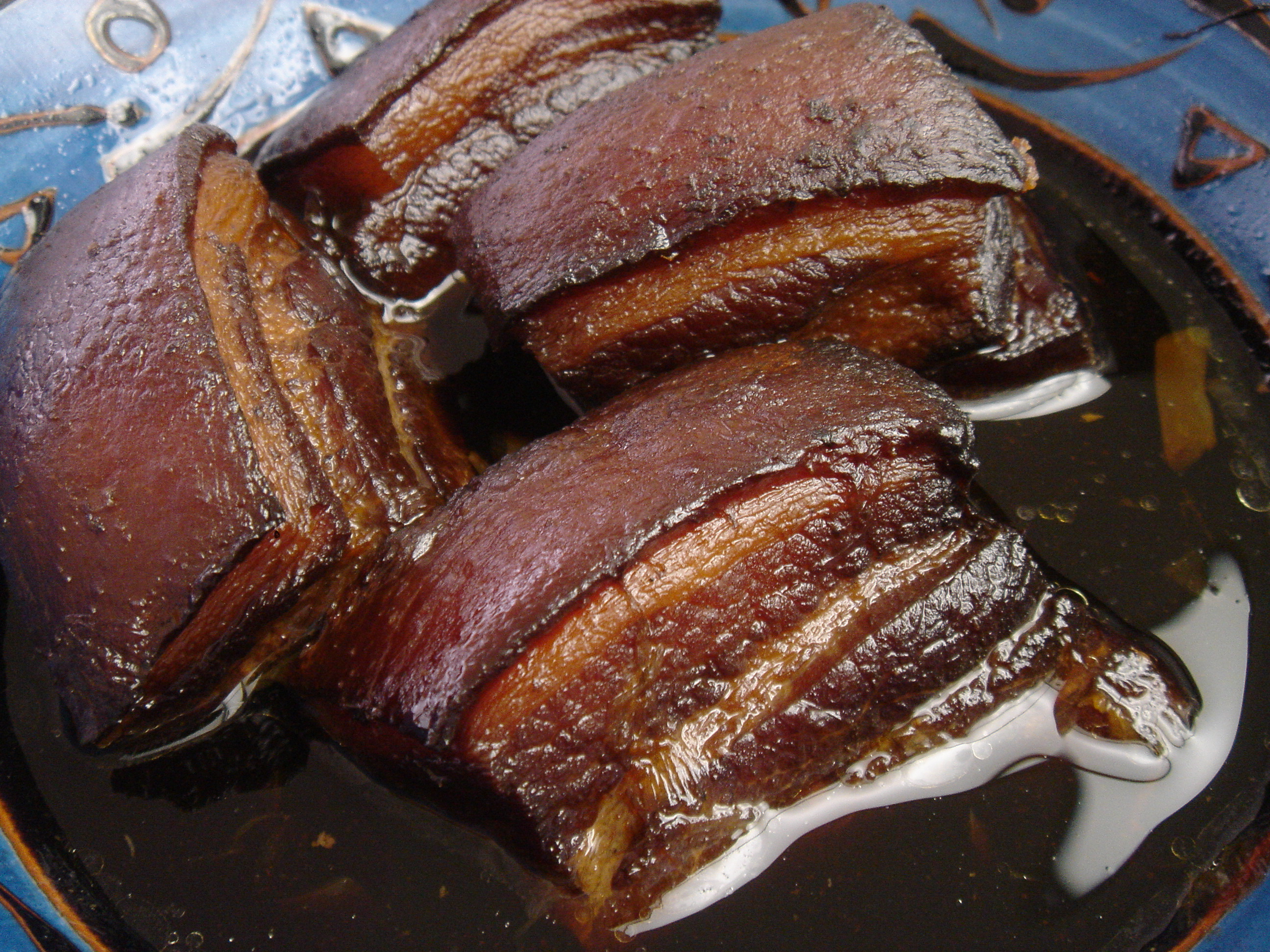 Dongpo rou (東坡肉). Fried pork belly stewed in soy and wine.